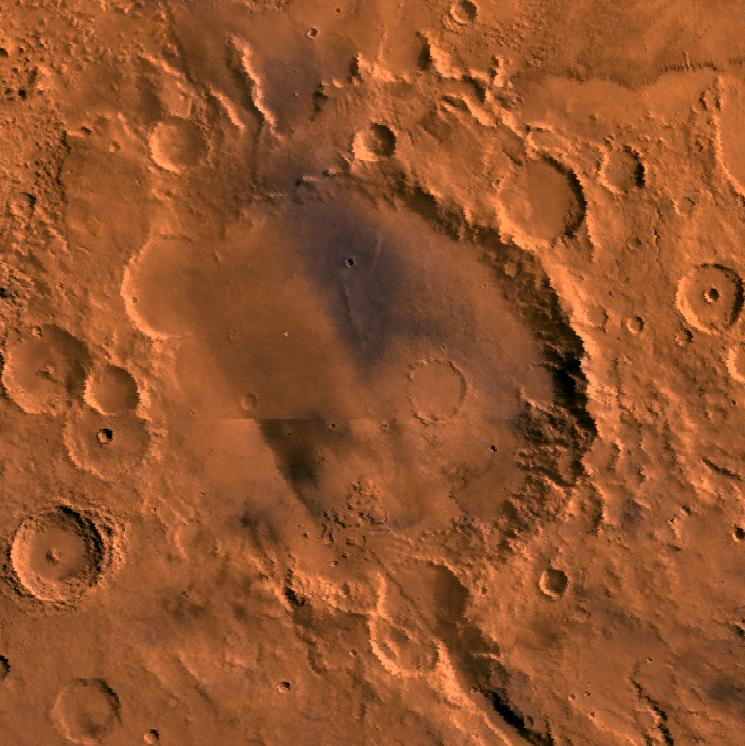 PIA00183: MC-23 Aeolis Region Mars digital-image mosaic merged with color of the MC-23 quadrangle, Aeolis region of Mars. The southern part is dominated by heavily cratered highlands that are cut by two large channels having features characteristic of terrestrial river beds. The highlands are separated from the northern plains of Elysium Planitia by a highly dissected, discontinuous northwest trending scarp. The northeastern part is marked by a large shield volcano, Apollinaris Patera. Latitude range - 30 to 0 degrees, longitude range -180 to -135 degrees.